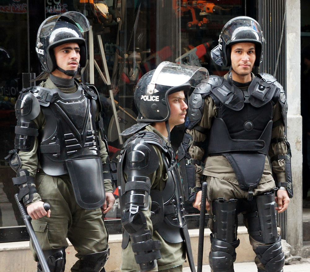 Anti-riot police in central Damascus, Jan. 16, 2012. Photo taken by VOA Middle East correspondent Elizabeth Arrott while traveling through Damascus with government escorts.